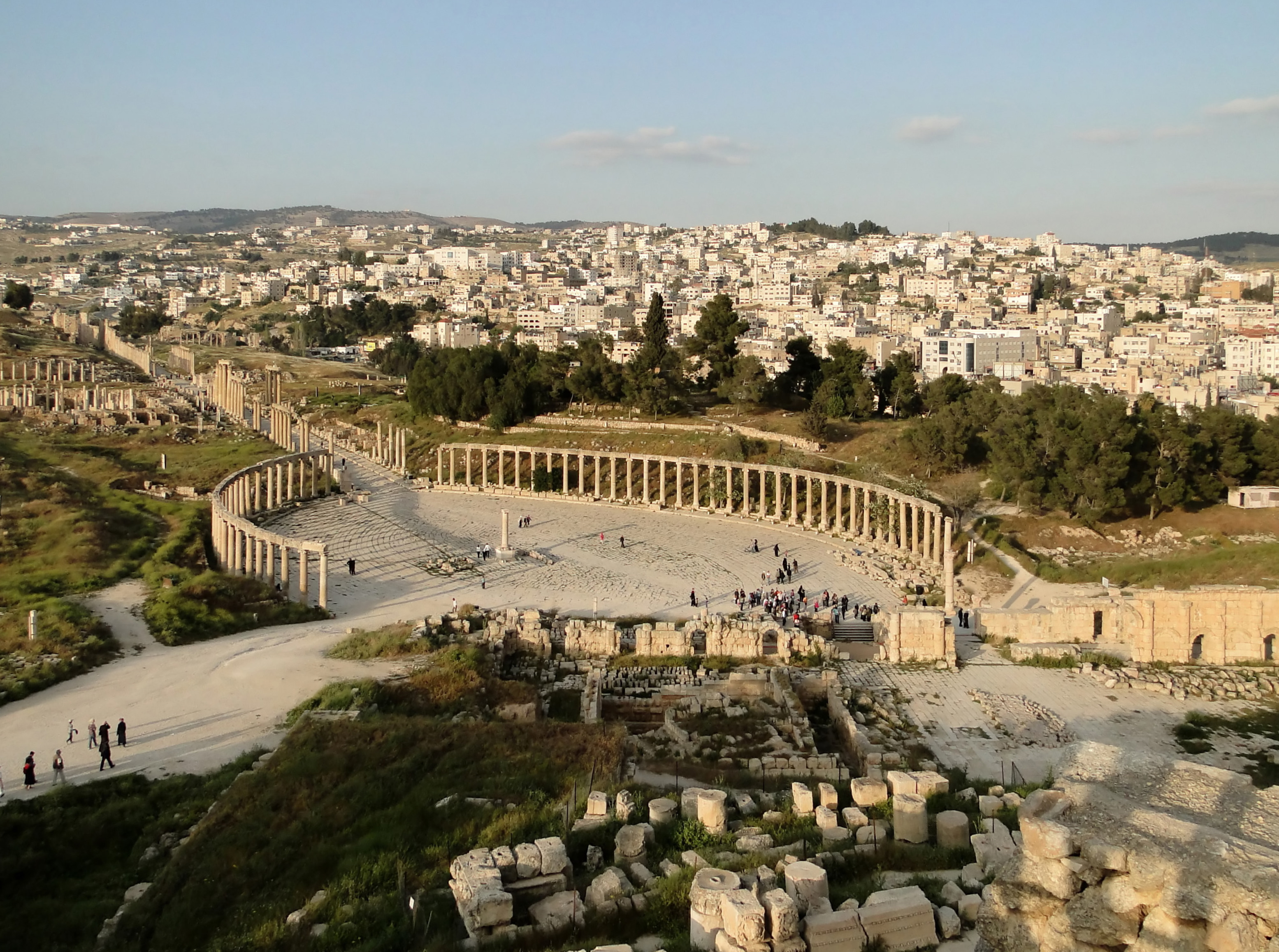 The Oval forum and the Cardo maximus of Jerash seen from the South theater, Jordan